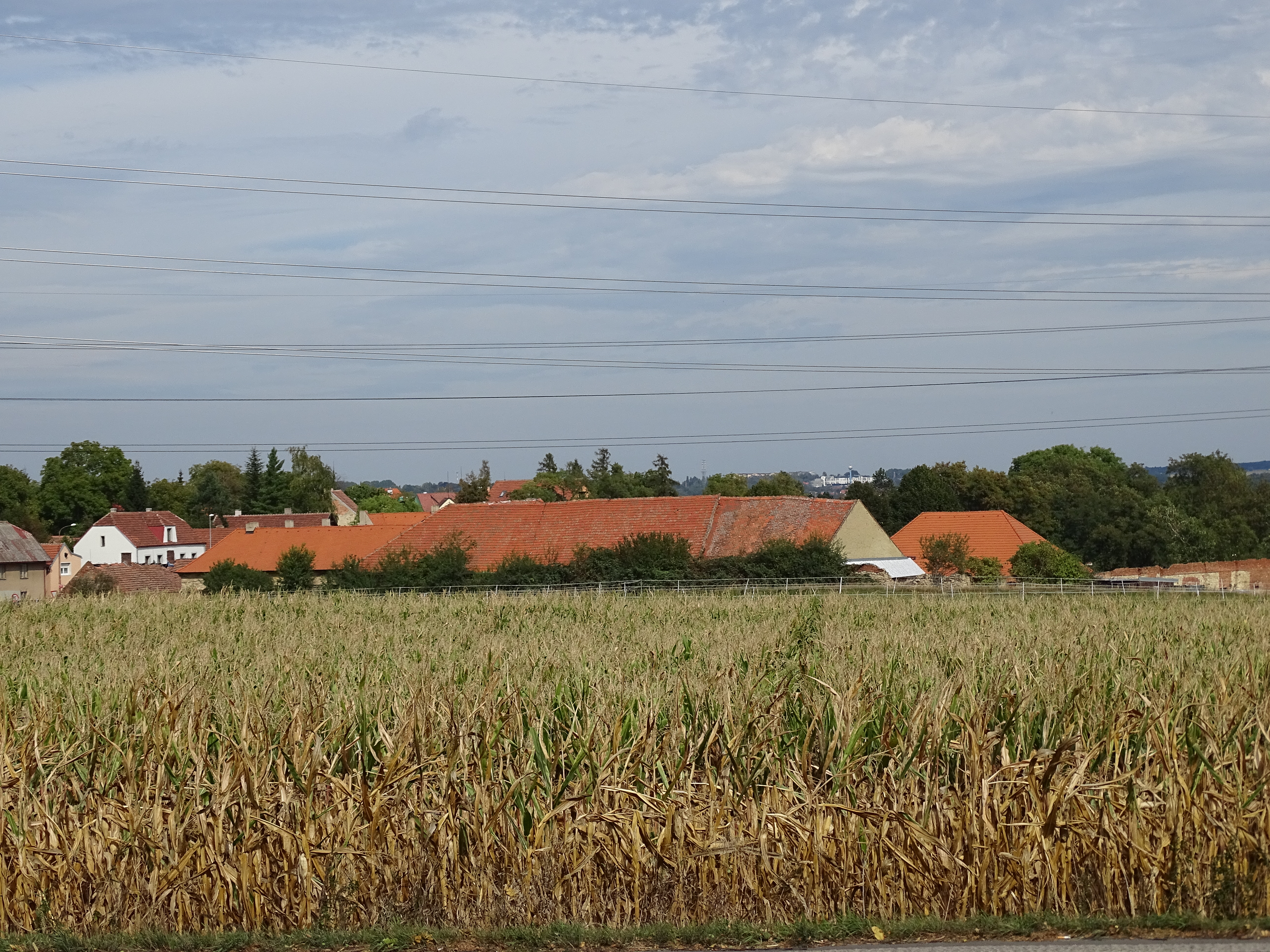 Prague-Suchdol, Czech Republic. A view from Kamýcká street, Výhledy.